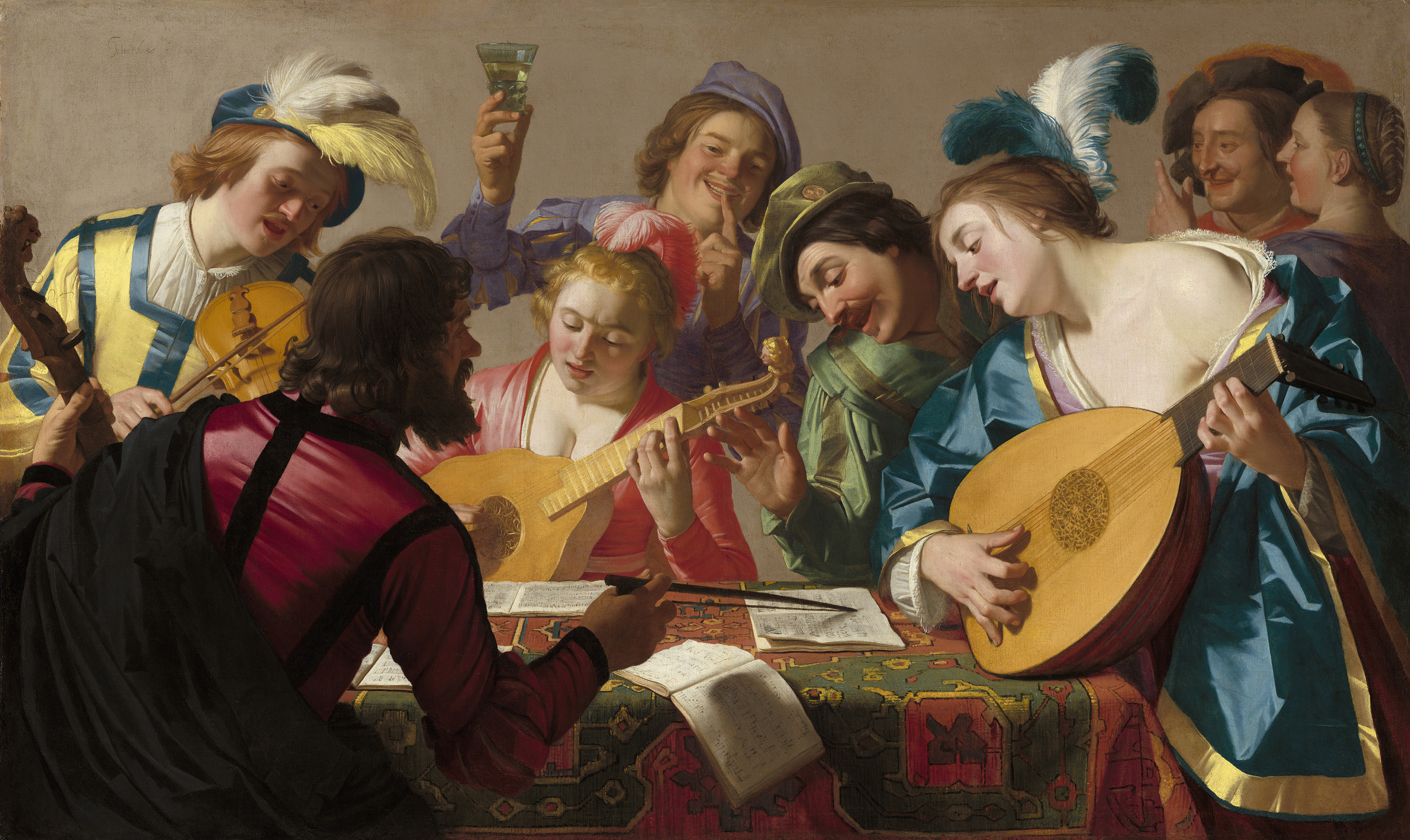 Gerard van Honthorst's 1623 painting The Concert. It was in the collection of a family in France, and was last seen in public in 1795. It was purchased by the National Gallery of Art in Washington, D.C., in the United States in 2013 for an undisclosed sum. It went on display on November 23, 2013, for the first time in 218 years.